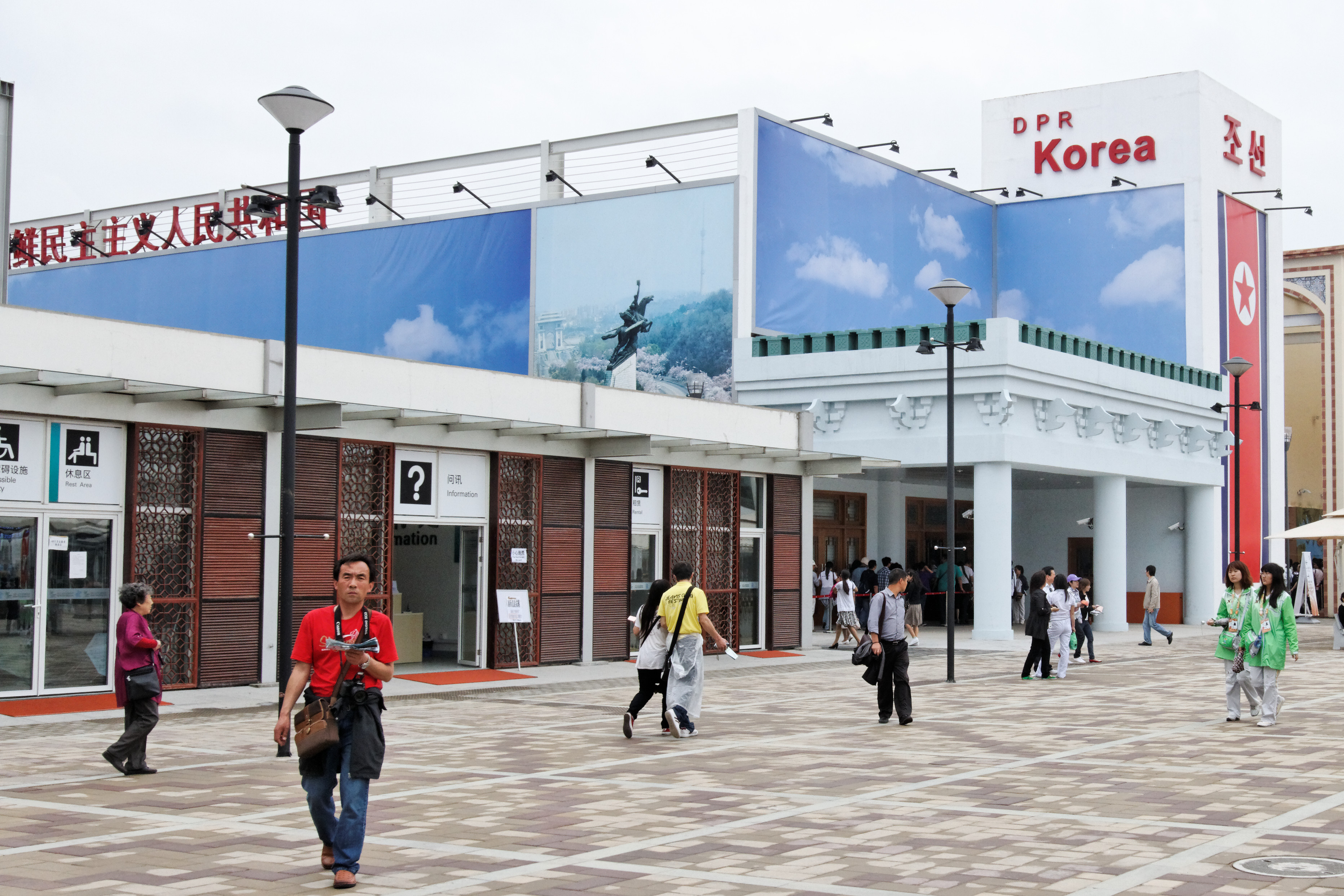 North Korea Pavilion of Expo 2010, quarter view